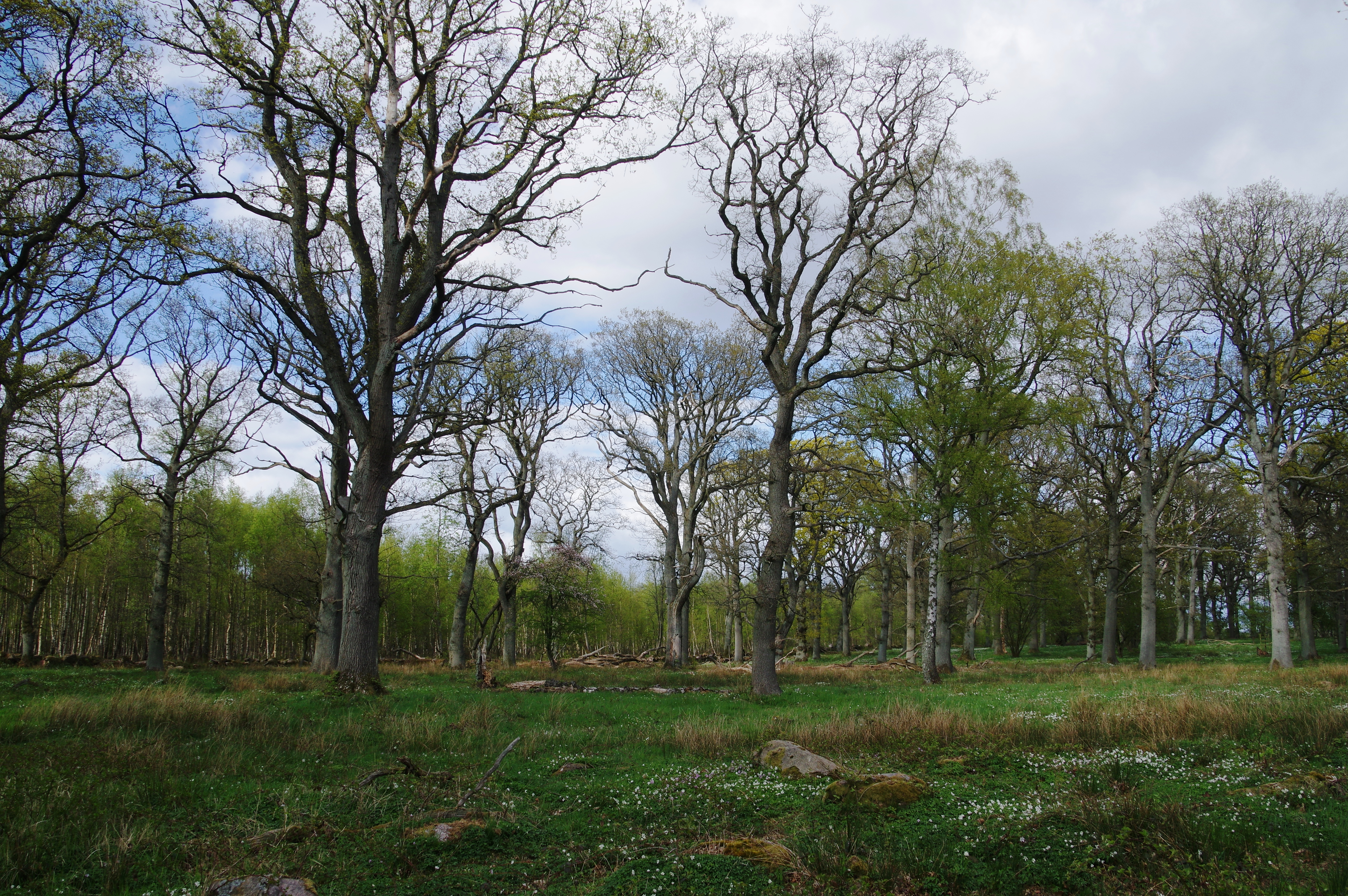 Old oaktrees in Bruces skog